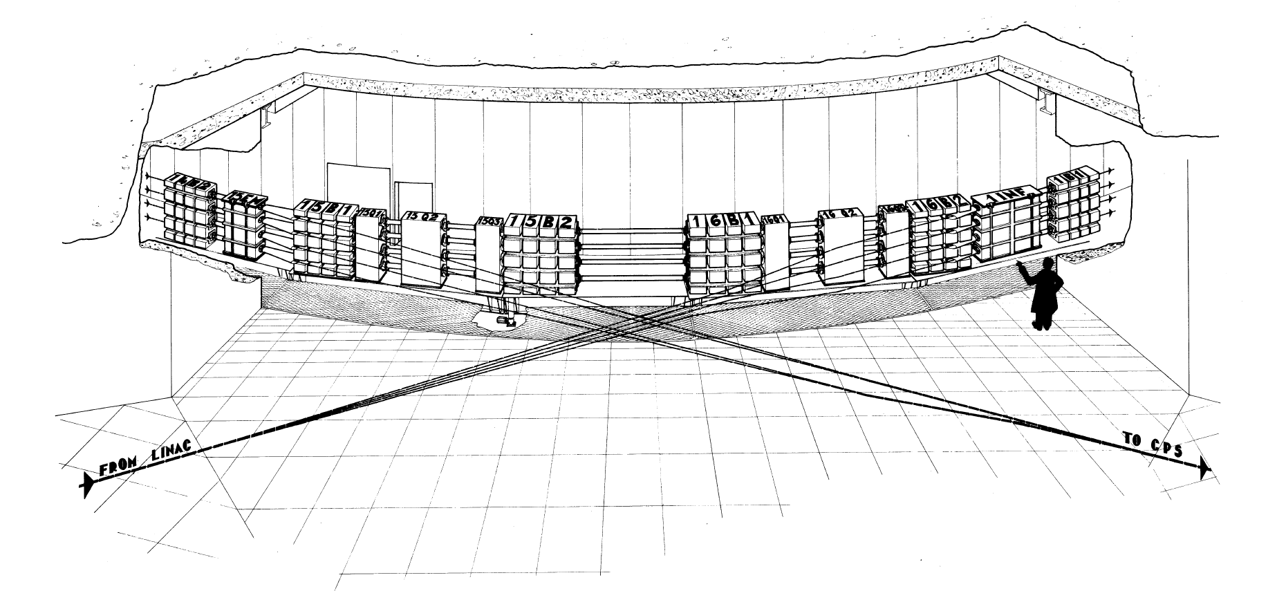 This image depicts an original artist's impression of the machine proposal "The Second Stage CPS Improvement Study - 800 MeV Booster Synchrotron" in 1967.